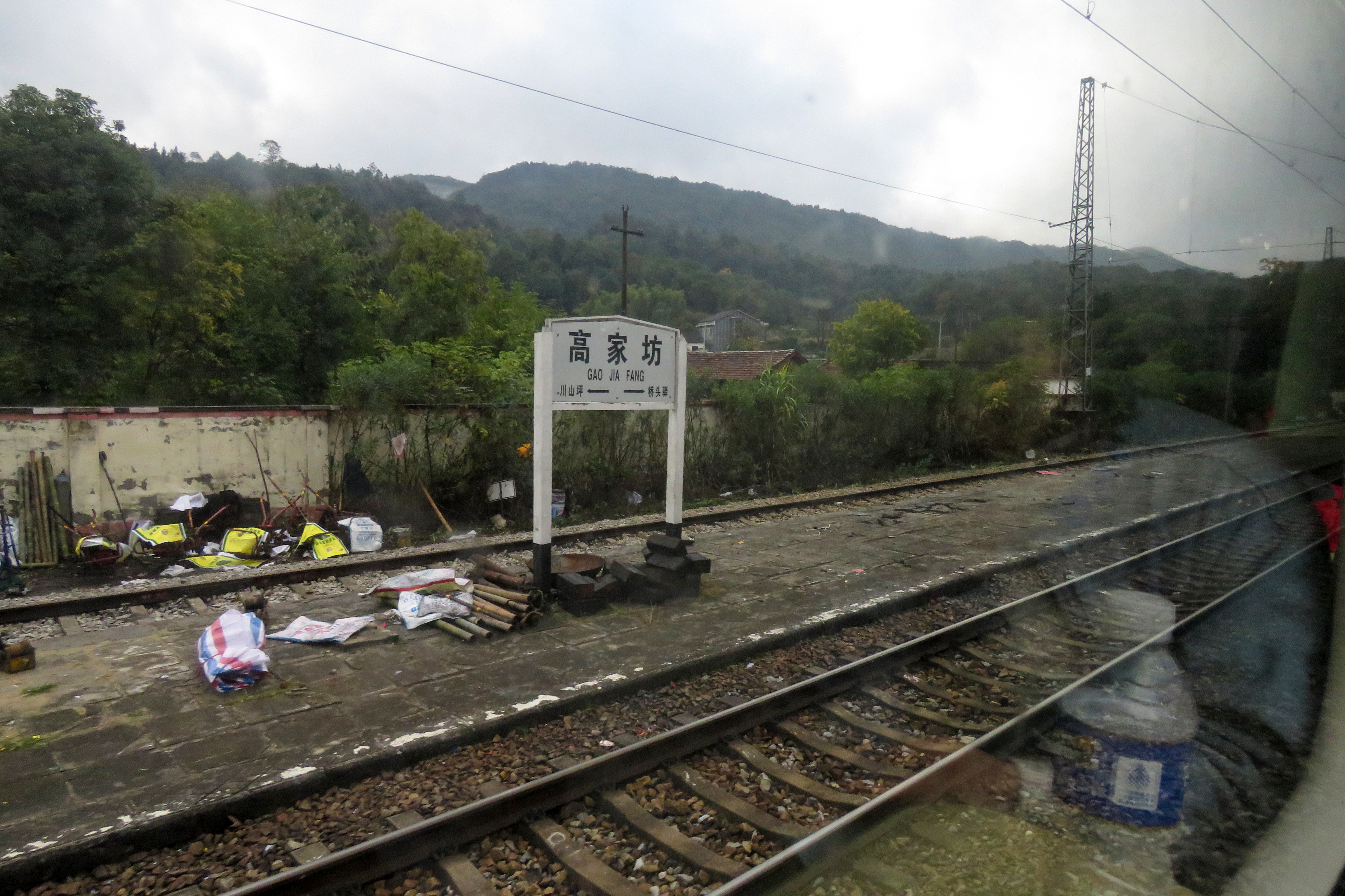 Z1 was delayed, but only one stop to enter the municipality.